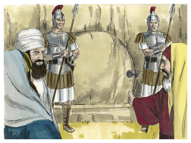 Biblical illustration of Gospel of Mark Chapter 15